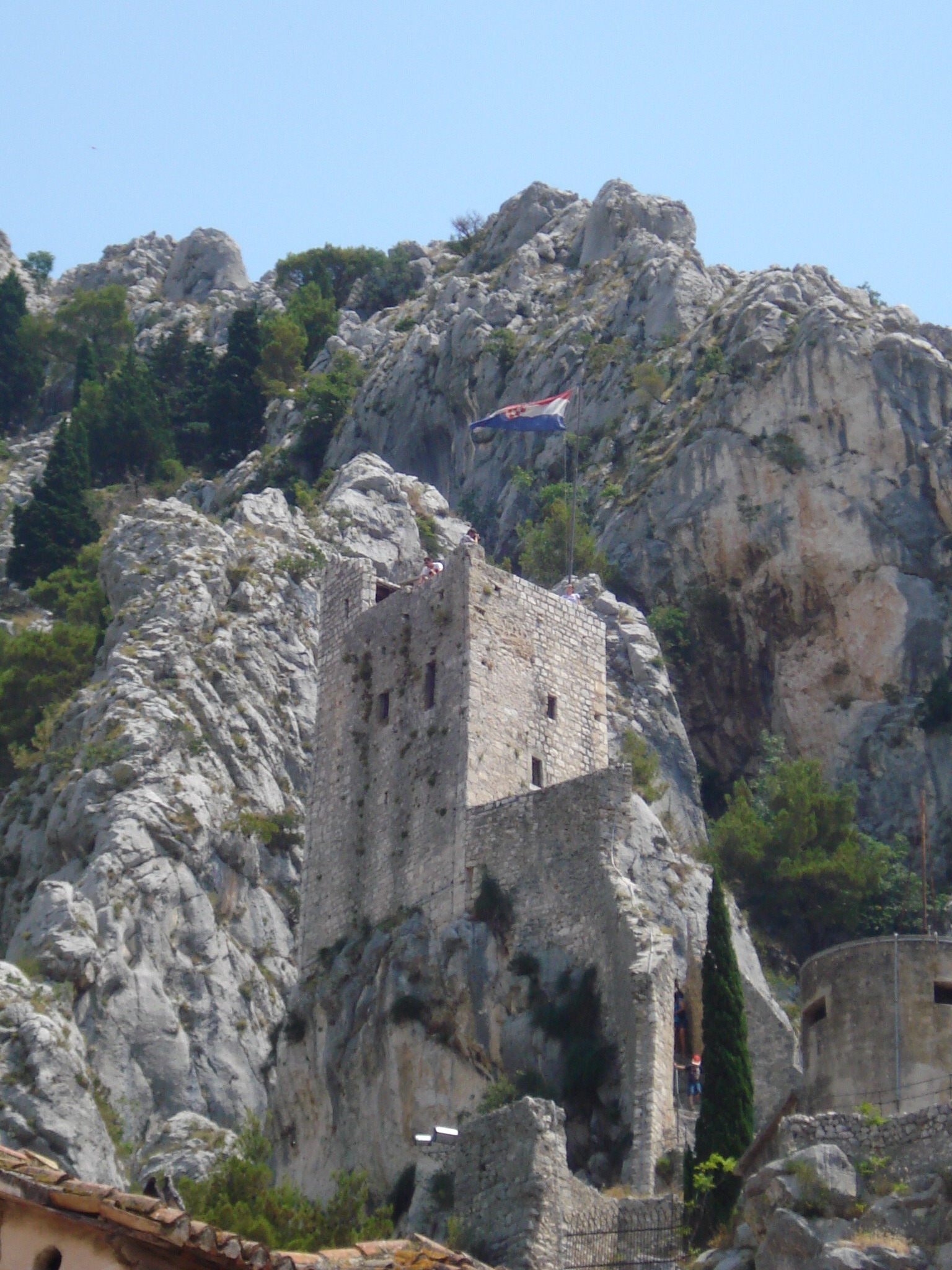 Peovica Fortress (or Mirabela Fortress) above the Town of Omiš, southern Croatia - west view